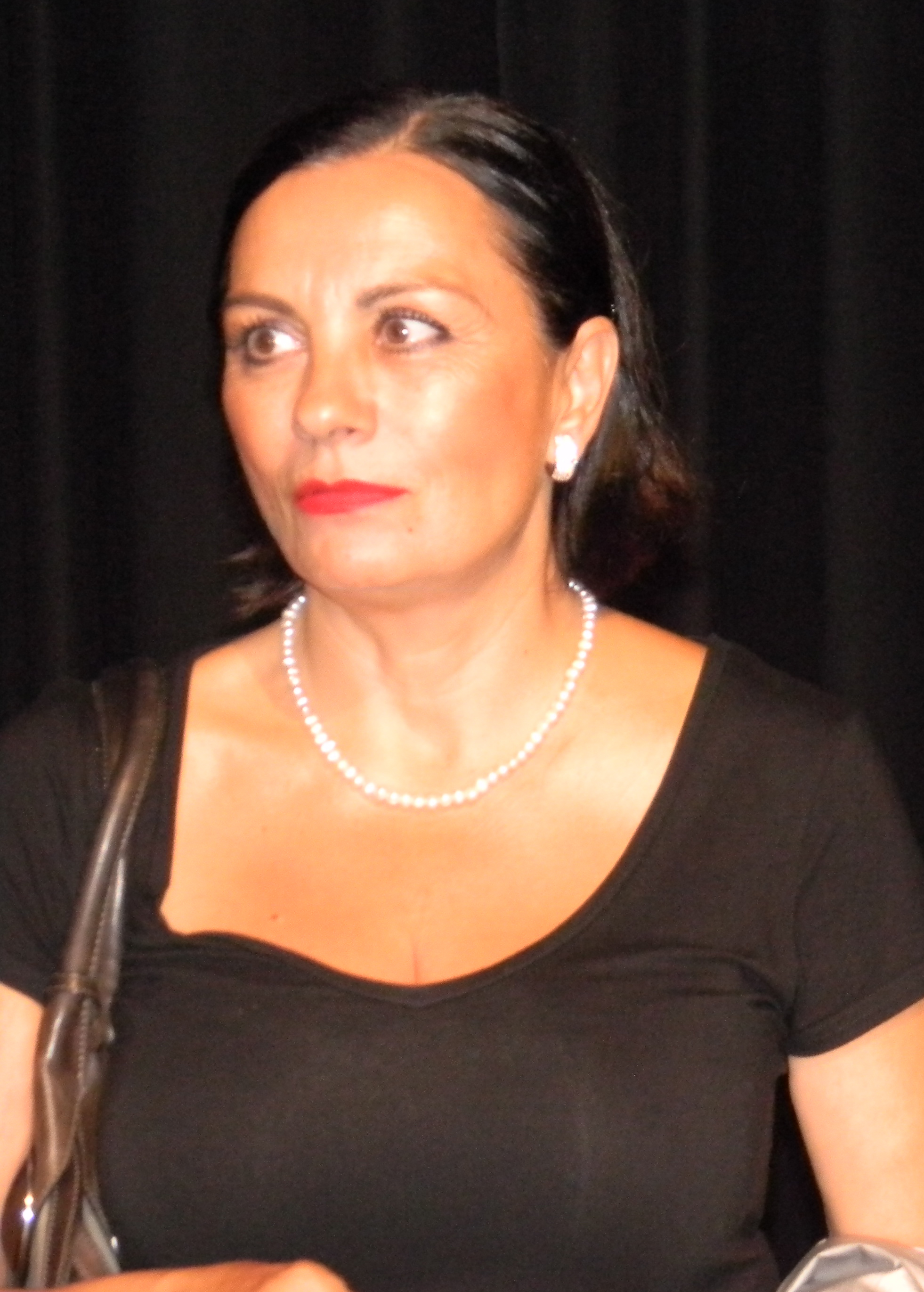 Serbian Actress Ljiljana Blagojevic in Kitchener Aeptember 2011, after the show